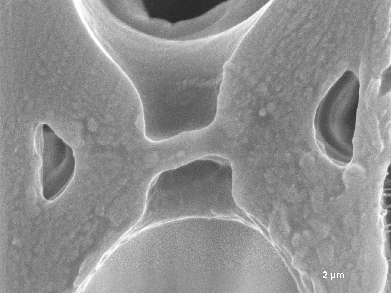 Simple pit and intercellular spaces between two ray parenchyma cells (Picea abies)